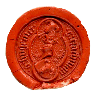 Seal Karl Wilhelm Sigismund Graf von Haugwitz, later in 1779